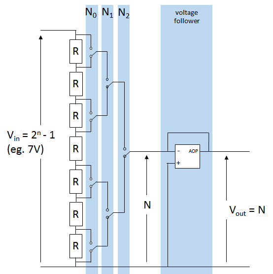 Digital Analog Converter unary weight resistor network electronic scheme